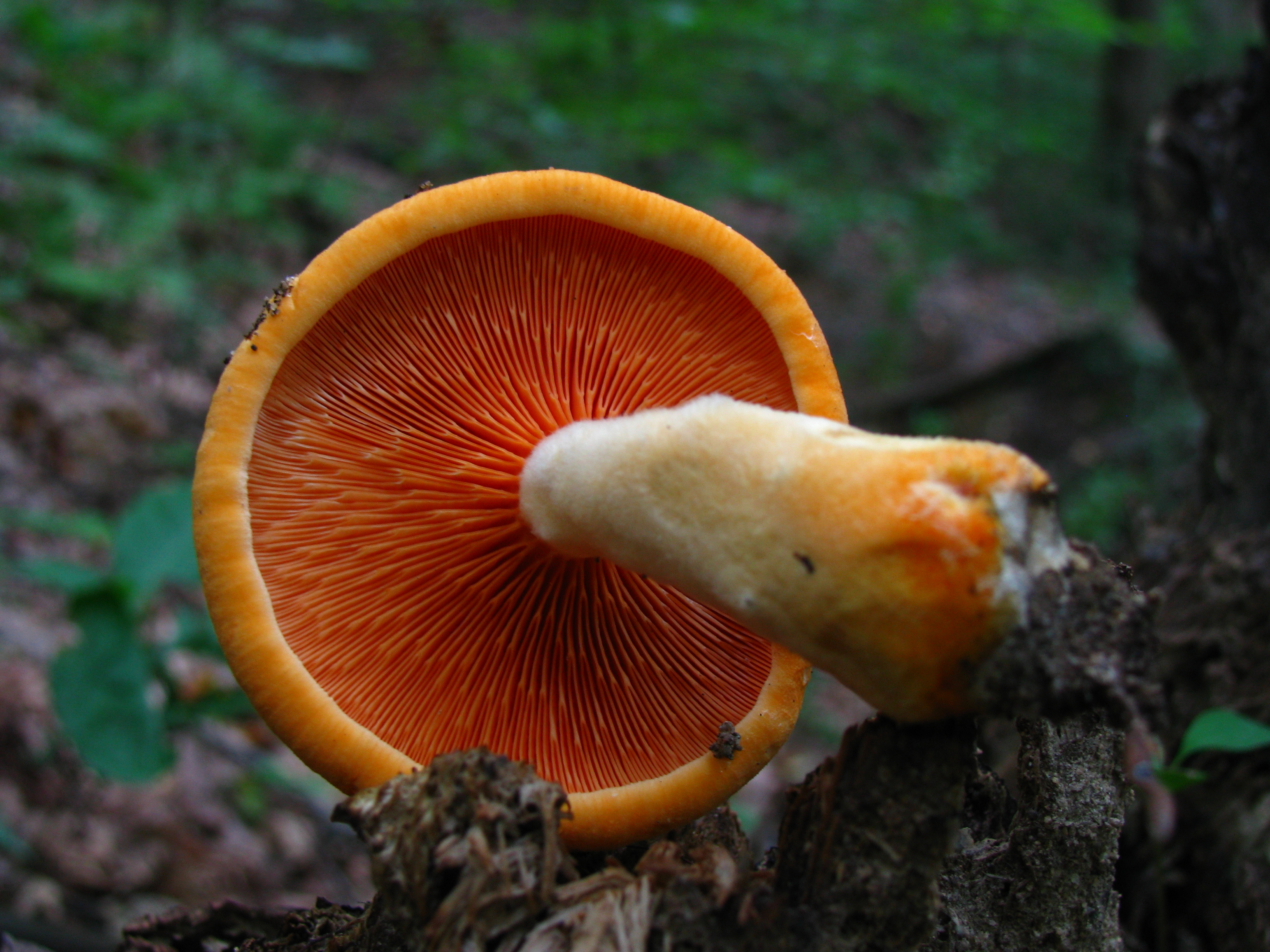 Hygrophoropsis aurantiaca ((Wulfen) Maire) Location: Strouds Run State Park, Athens, Ohio, USA